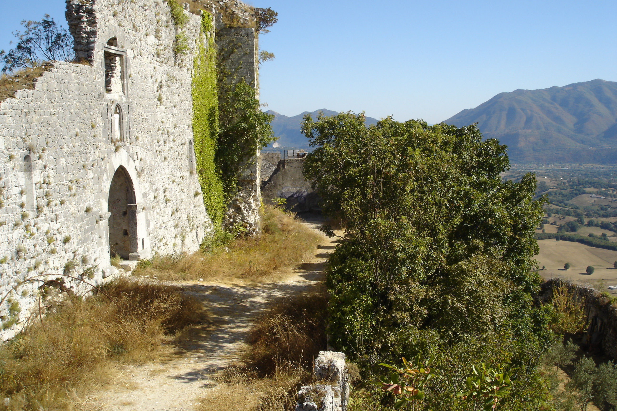 Alvito Castle